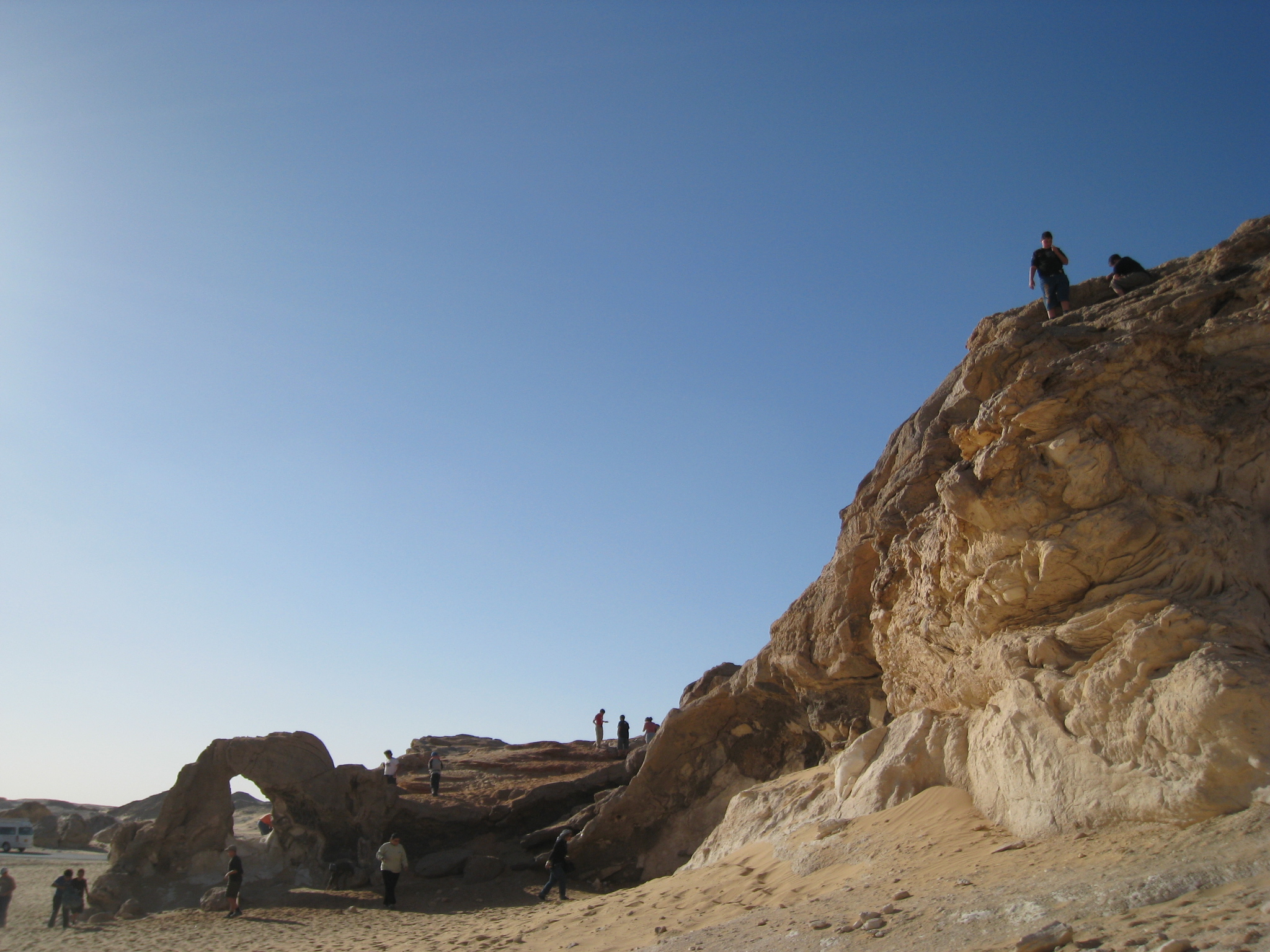 Big rock candy mountain.